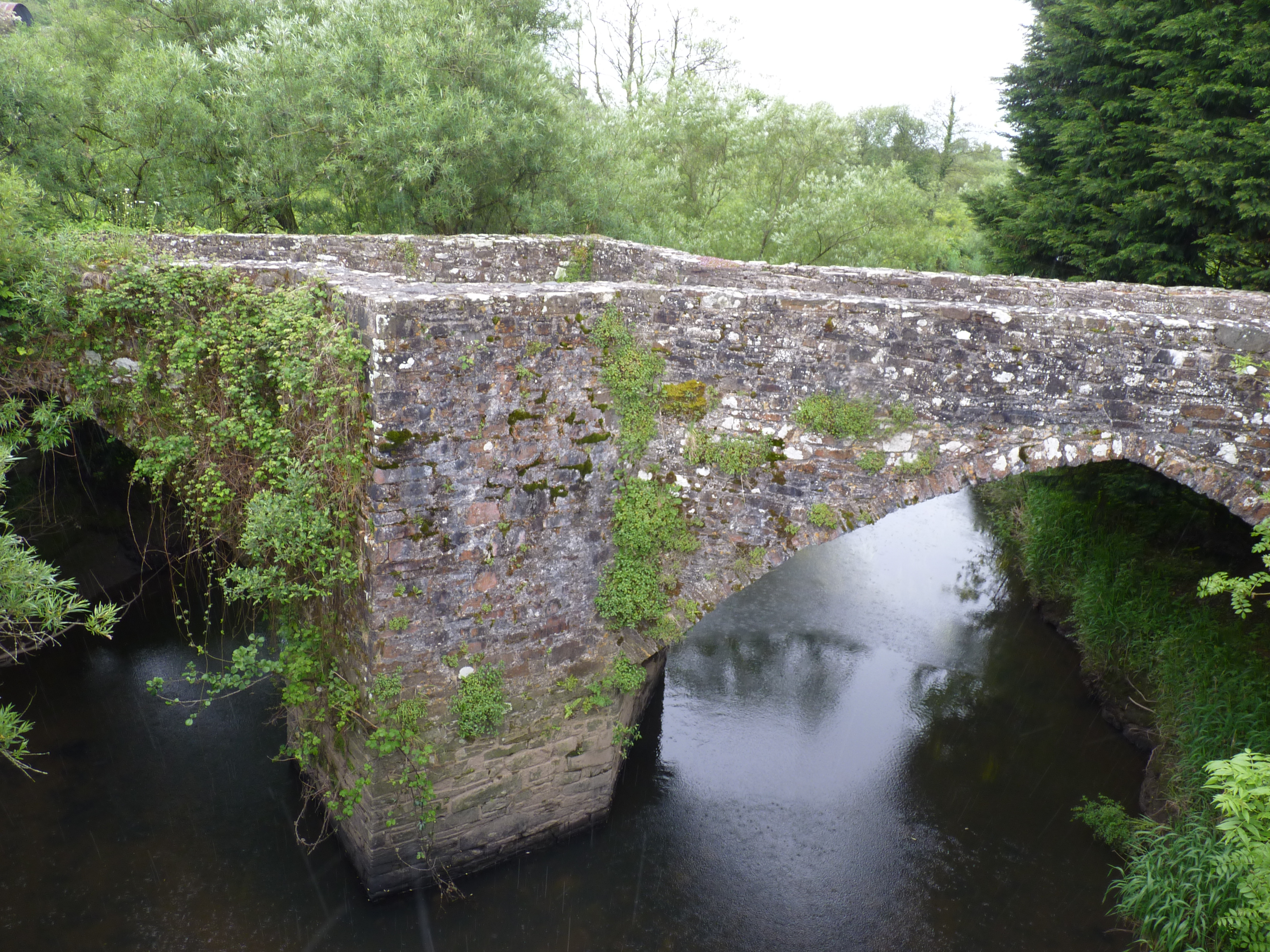 (Welsh: Pont Spwdwr) a medieval bridge and causeway over the River Gwendraeth Fawr, between Trimsaran and Kidwelly, Carmarthenshire.